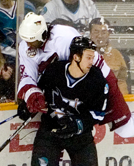 Josh Gorges checking Georges Laraque.